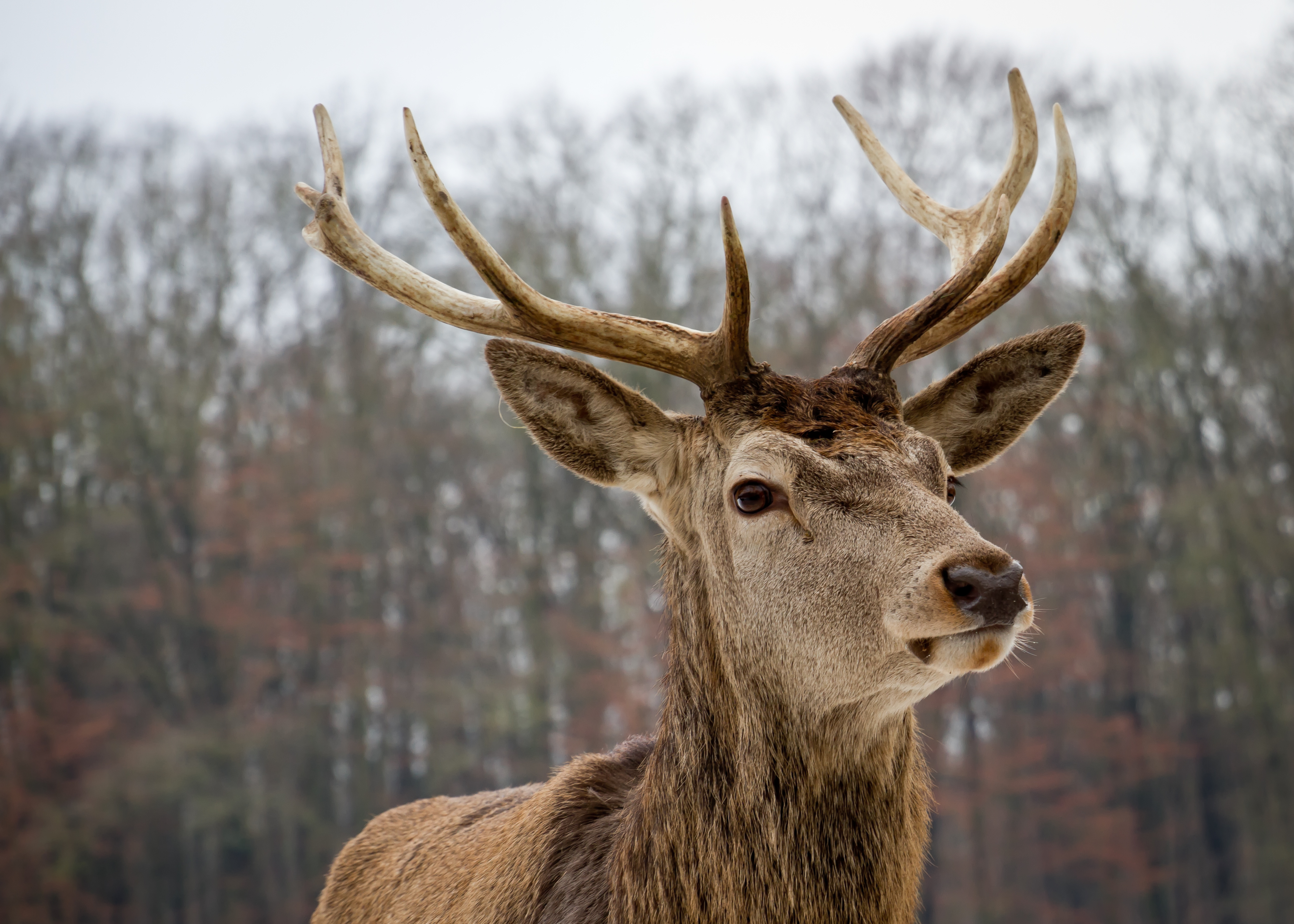 Close shot of a male red deer